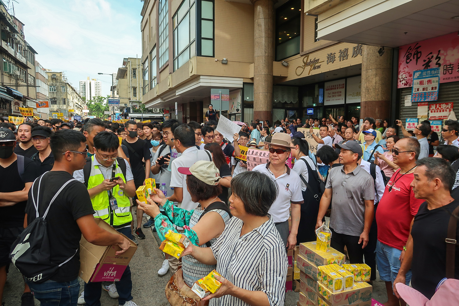 Drink supply outside Royal Jubilee